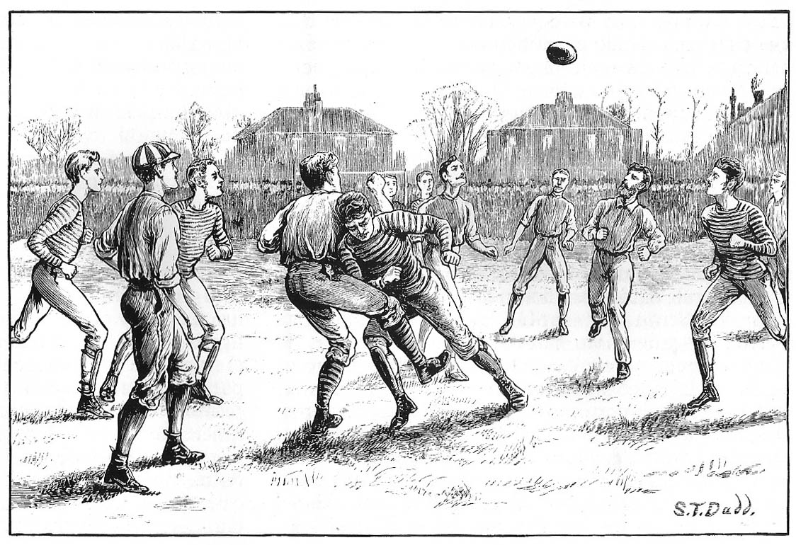 Old Etonians v. Blackburn Rovers playing a match under the association football code. Engraving.